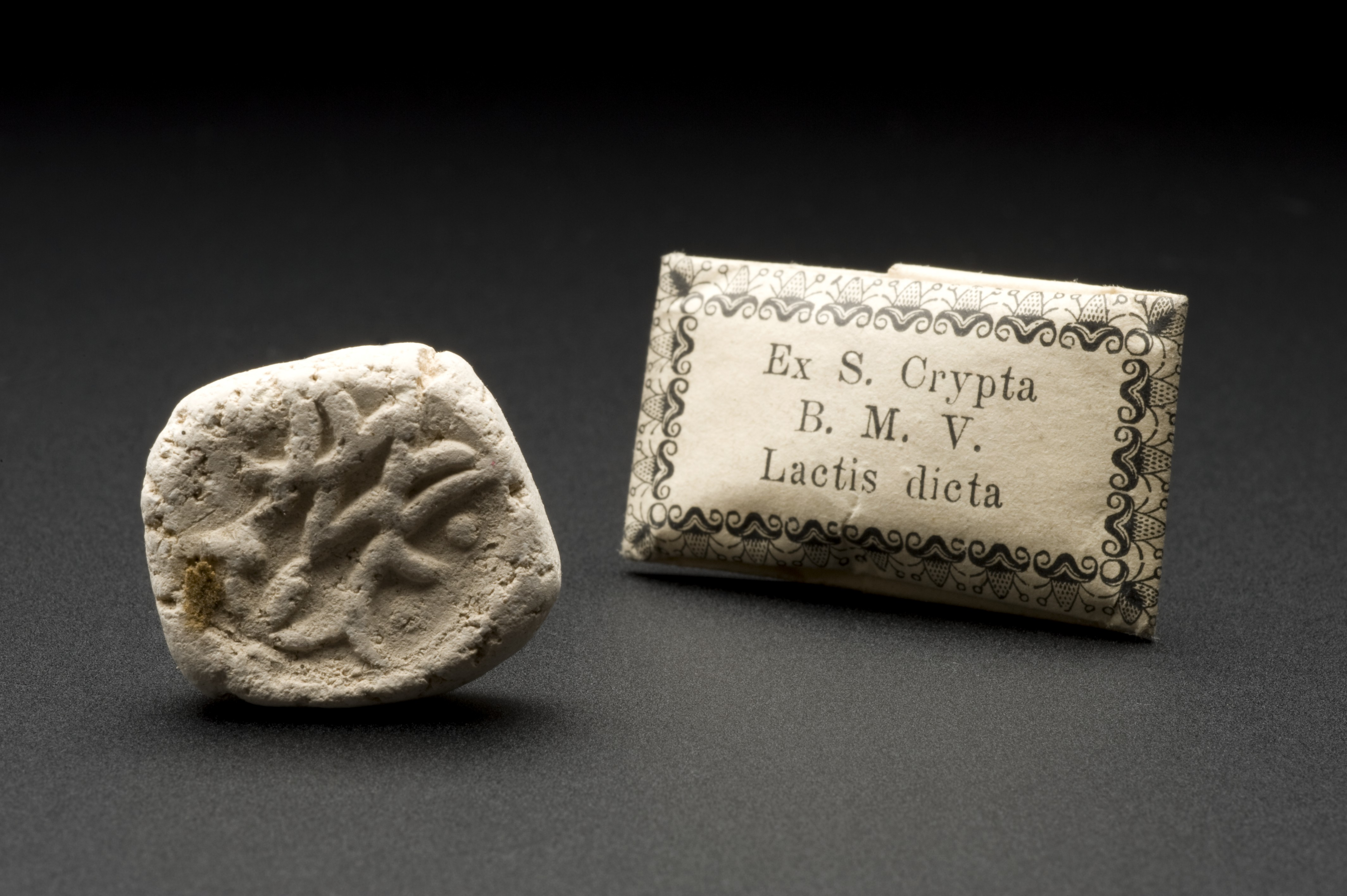 These two objects, one still with its paper wrapping, were collected by Christian worshippers on a pilgrimage to Bethlehem in the early twentieth century. They are small tablets of terra sigillata – a clay traditionally believed to have medicinal qualities. The clay was ground up and used in medical preparations, a practice begun in the Middle Ages that continues today. The wrapping is marked with a Latin inscription which translates as “Believed to be from the sacred crypt of the suckling blessed virgin Mary”. This white clay is from the Milk Grotto at Bethlehem, a holy site for Christians because they believe it was where Mary gave birth to Jesus Christ. The clay was also used to help women who had difficulty breastfeeding. maker: Unknown maker Place made: Bethlehem, West Bank, Palestine Wellcome Images Keywords: Breast Feeding; terra sigillata; reliquary